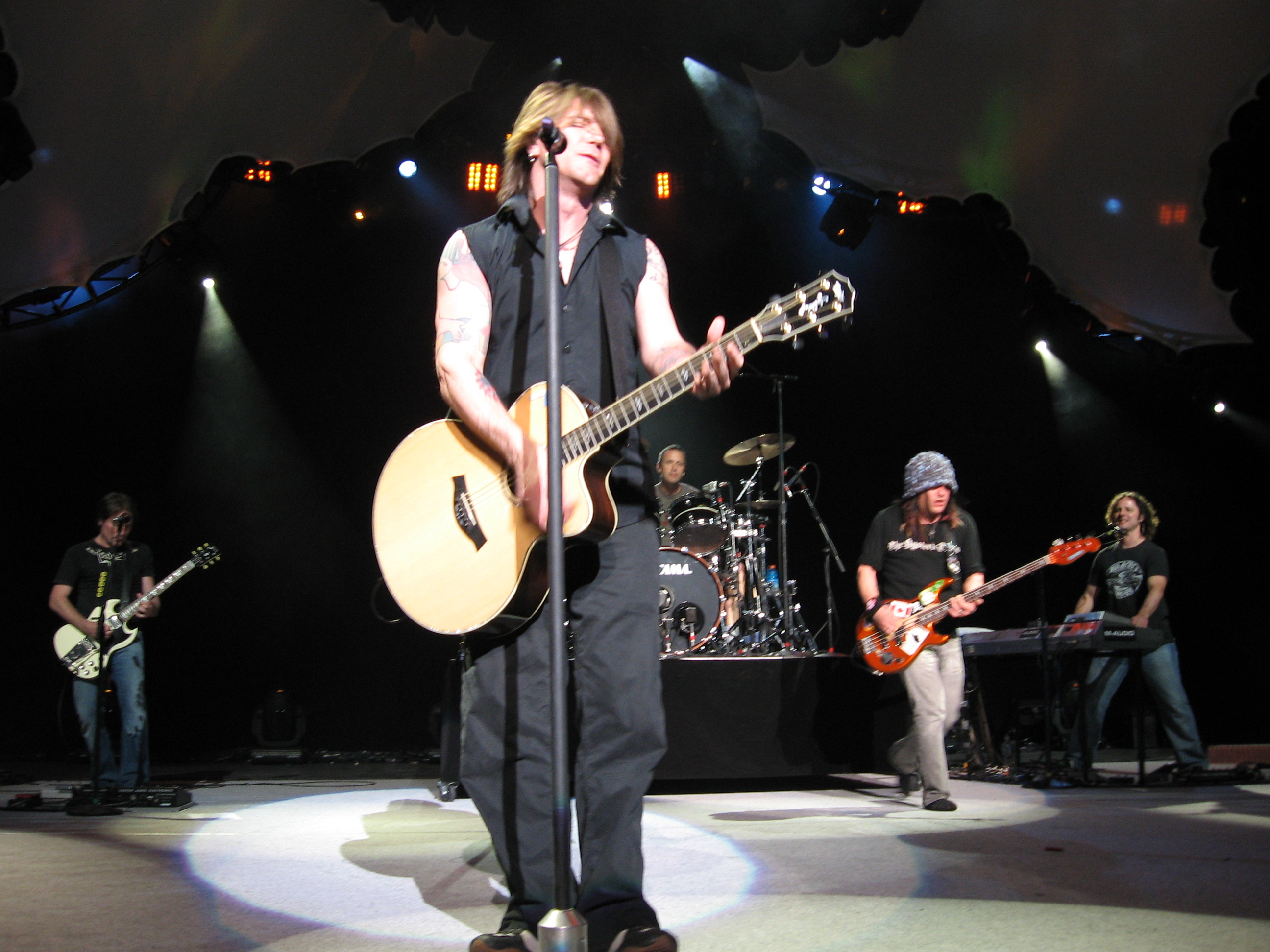 The Goo Goo Dolls perform their song 'Slide' from their 1998 album 'Dizzy up the Girl' at the Tweeter Center in Mansfield, MA on July 22nd, 2007.